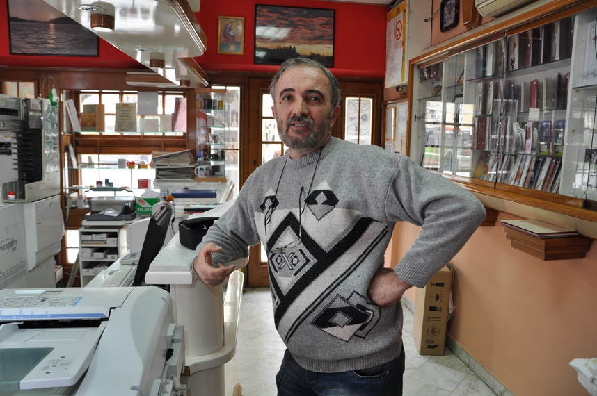 Voja Dodevski Српски (ћирилица): Воја Додевски, српски енигмата